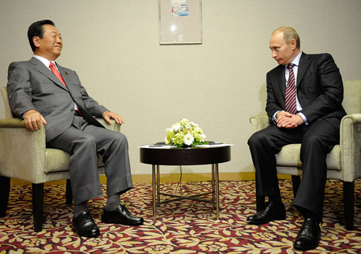 Vladimir Putin, Prime Minister, talked with Ichirō Ozawa, Member of the House of Representatives, in Tōkyō Metropolis on May 12, 2009.